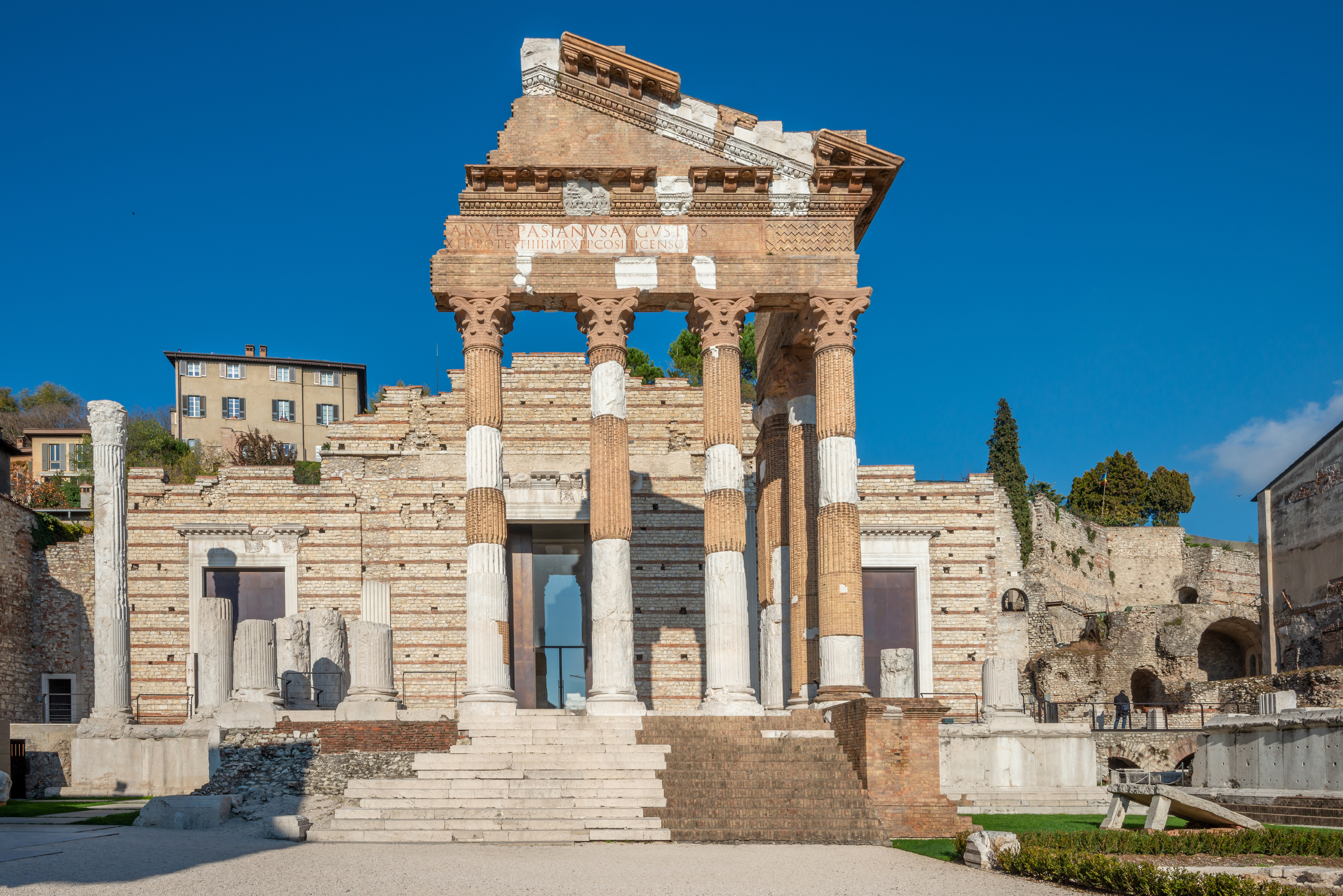 Piazza del Foro square in Brescia.